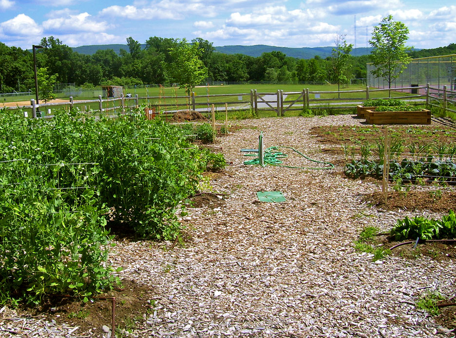 Photographed by Daniel Case after the school day 2007-06-13.